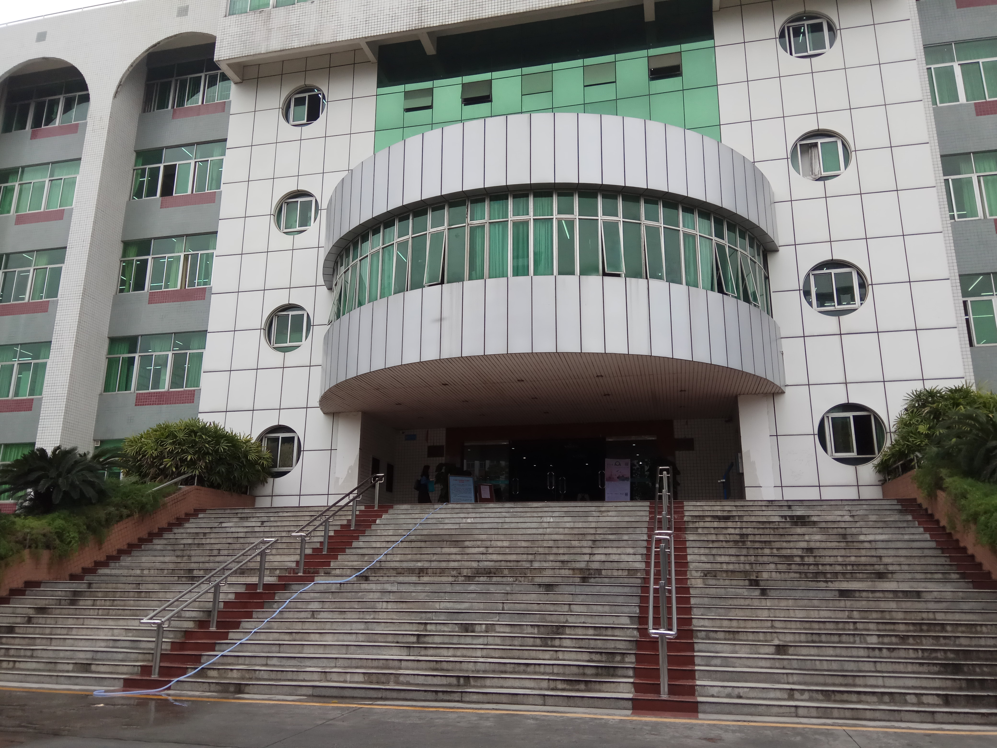 The library of South China Normal University in Shipai. 中文（中国大陆）: 华南师范大学石牌校区图书馆。